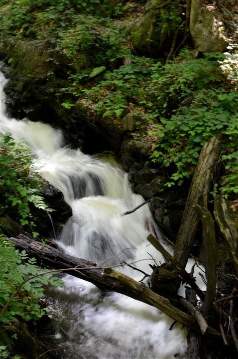 Raska Municipality - canyon Samokovska -Kopaonik